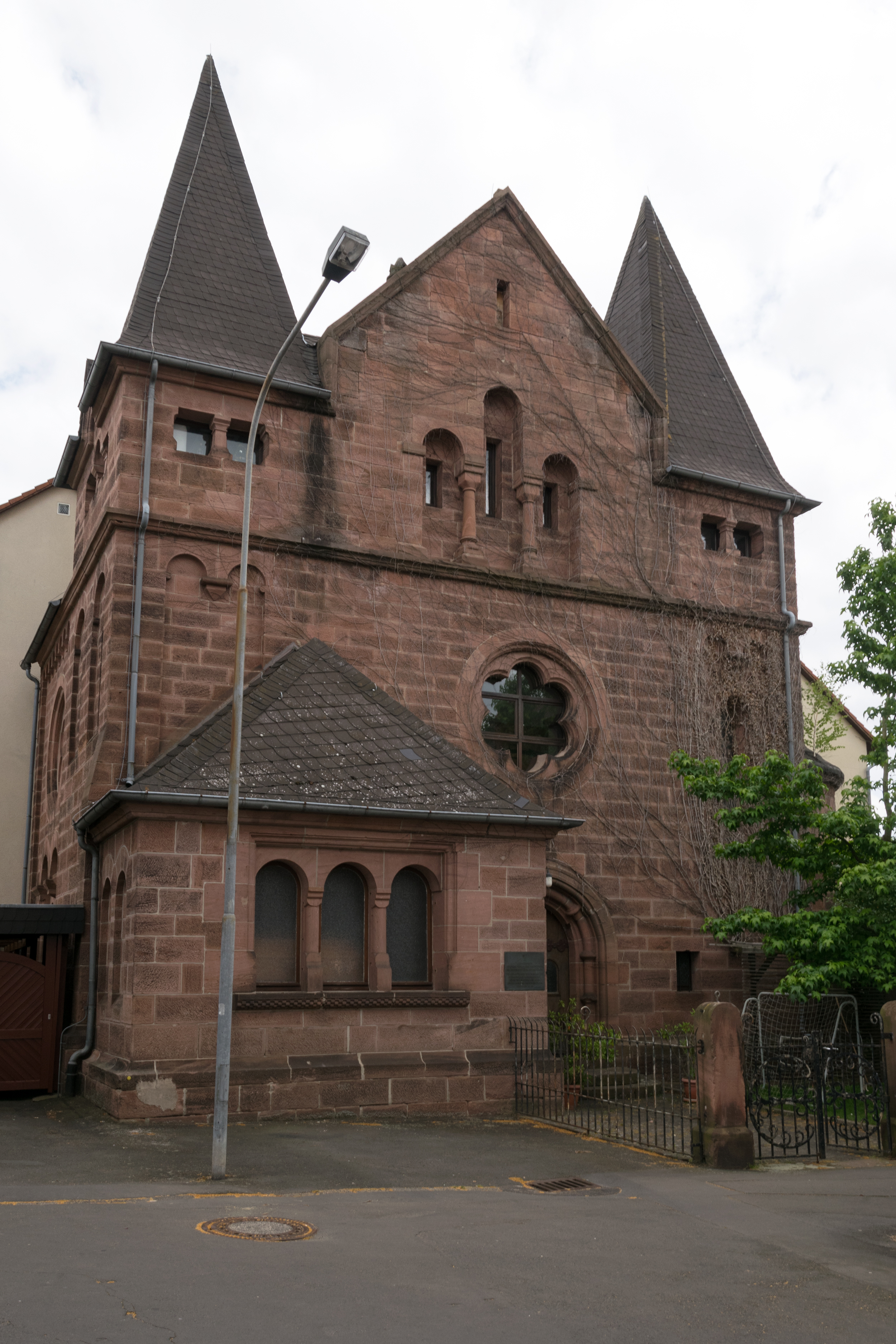 Former synagogue in Kirchhain